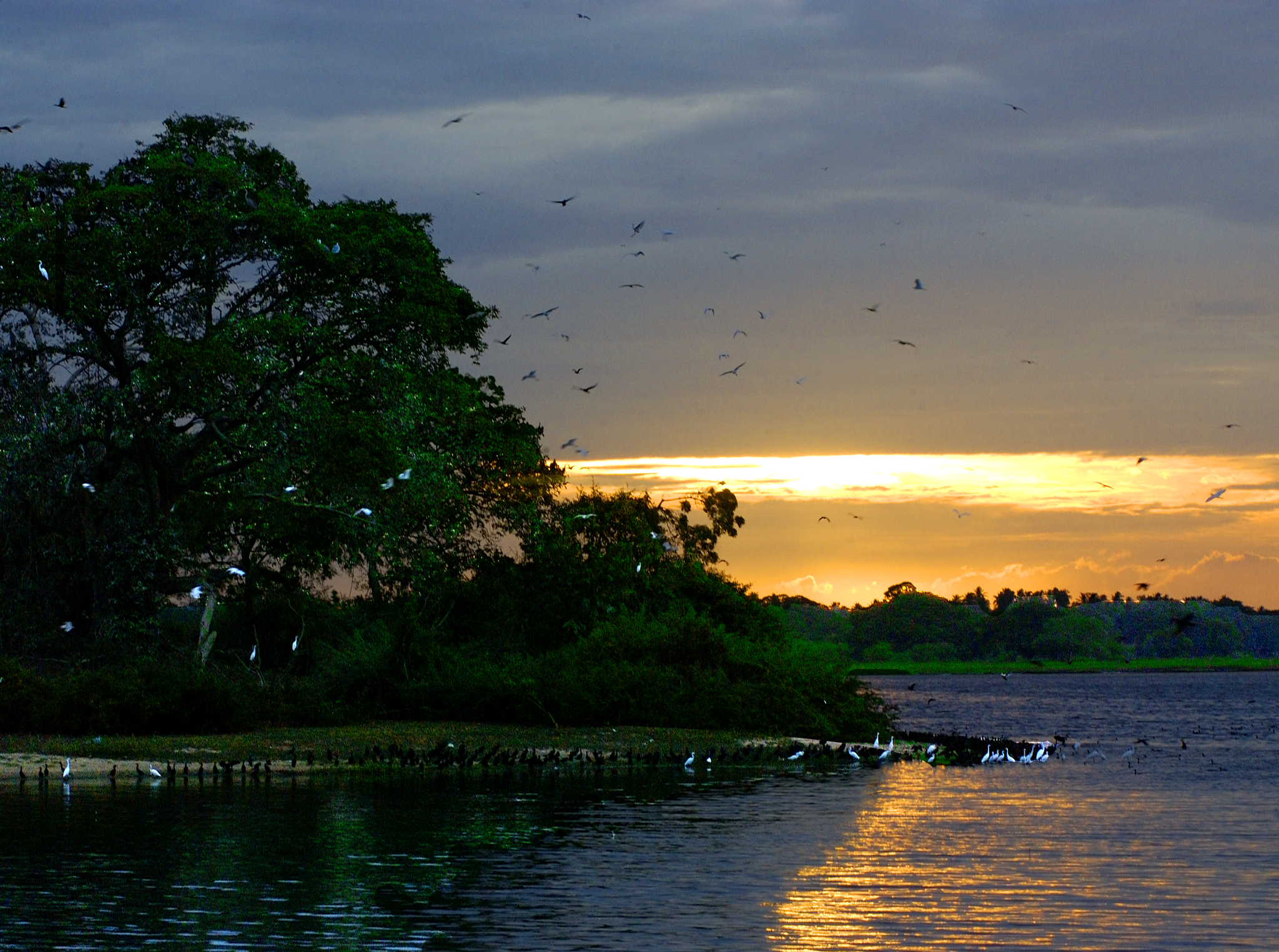 Wildlife Preserve Near Kirinda, Sri Lanka